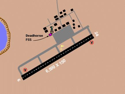 Diagram of Deadhorse Airport (SCC) in Deadhorse, Alaska, United States.